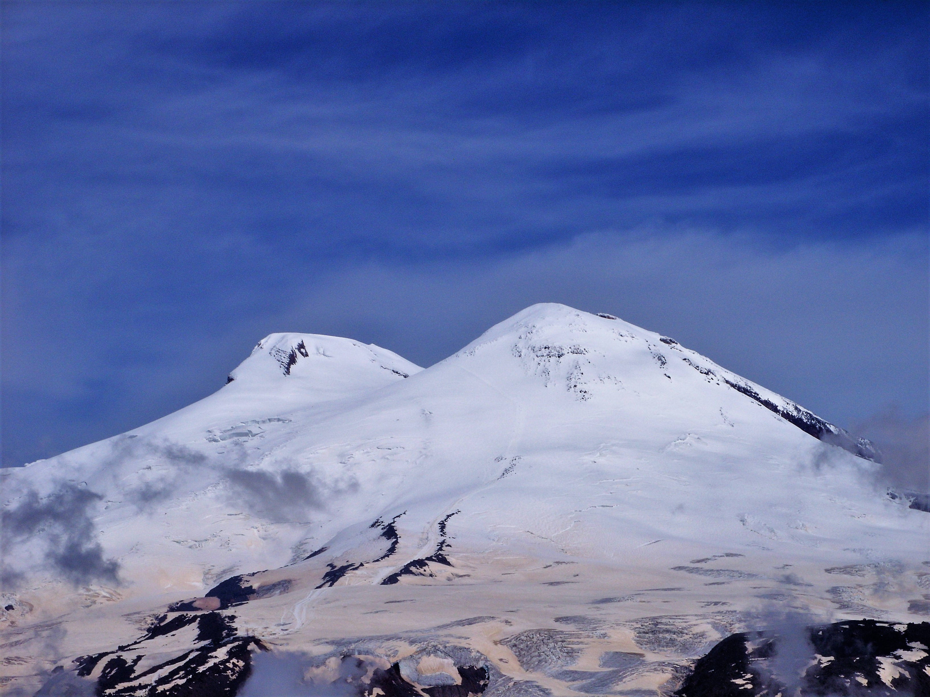 View to Elbrus from Mount Cheget with zoom, Kabardino-Balkaria, Elbrussky District